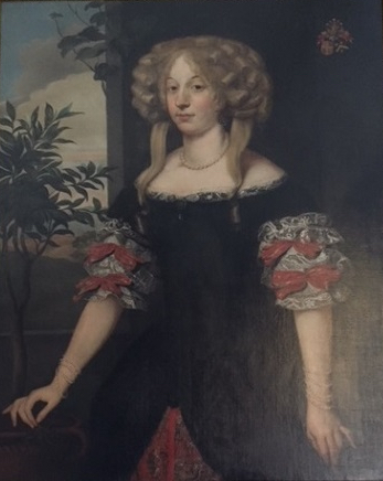 Isabelle Gheys, dame de Geet-Betz, épouse de Jean de Ryckman de Betz